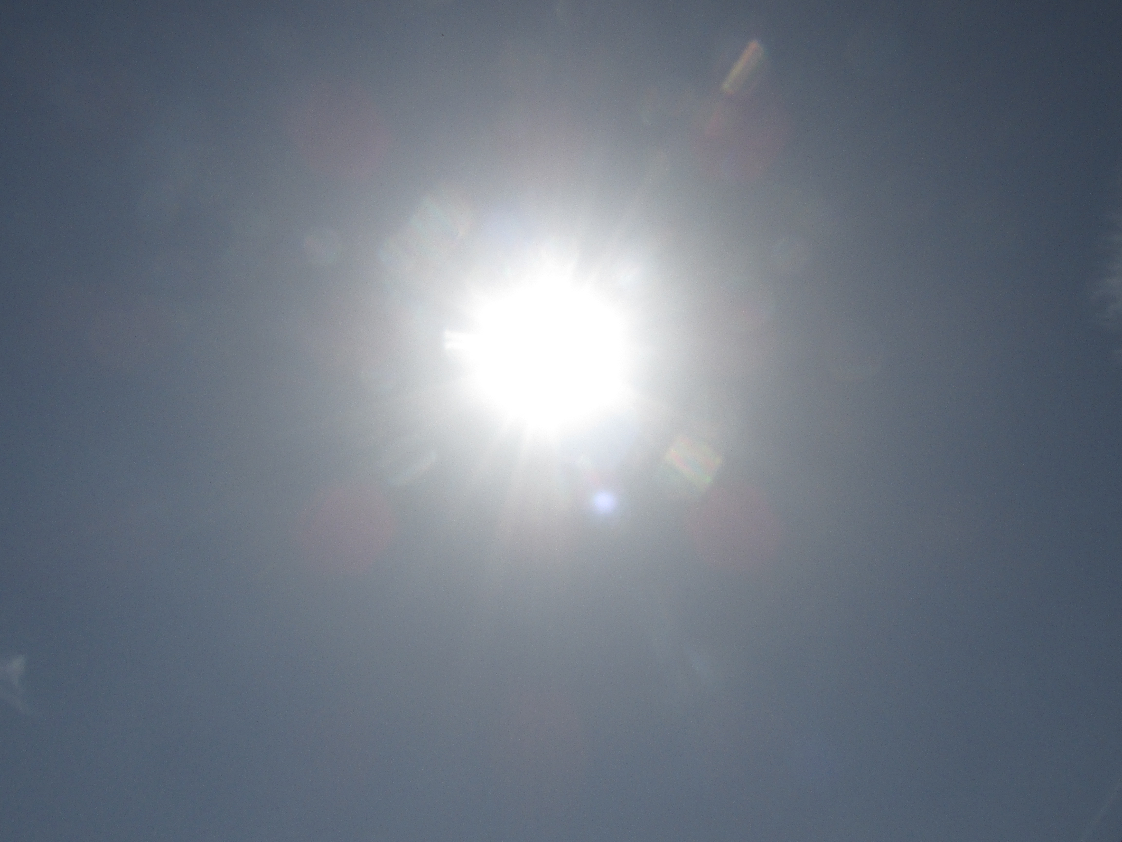 An Earth POV of the Sun.